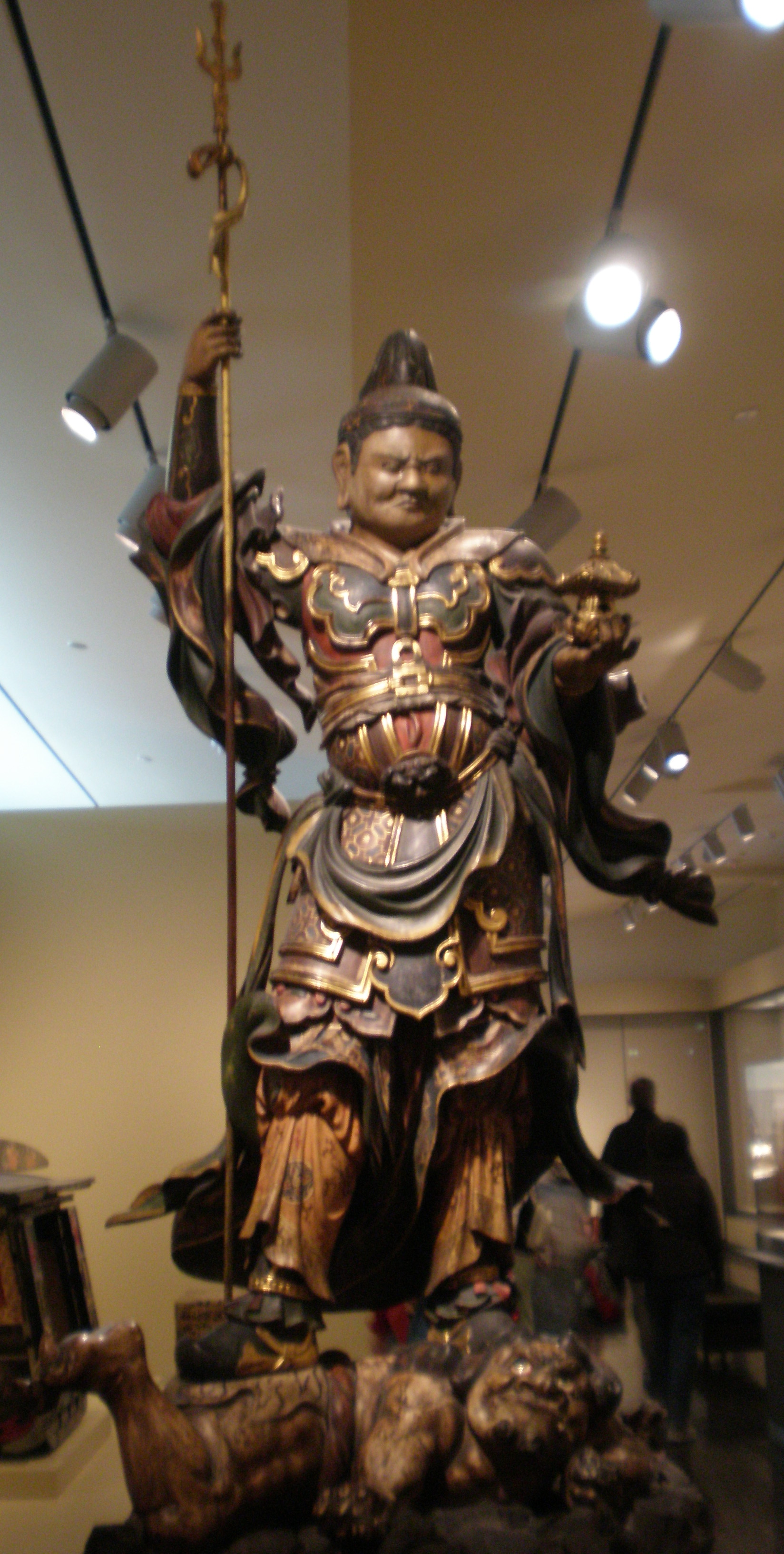 Wooden statue of Bishamonten stepping on a demon (1615-1700) on display at the Asian Art Museum in San Francisco, California. B605170+